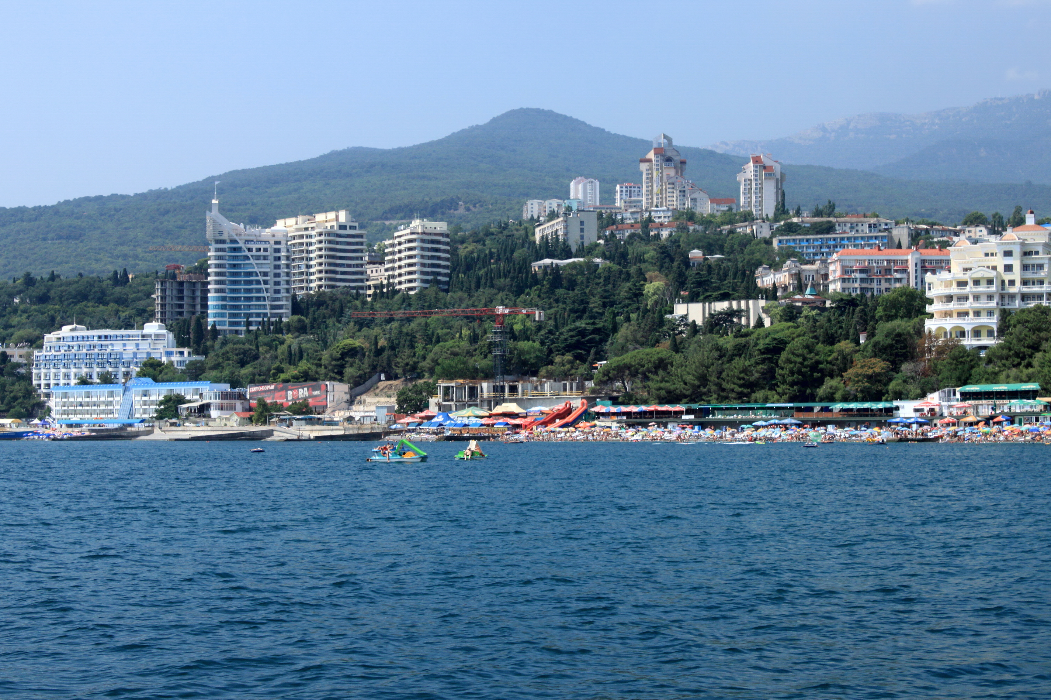 View of the city from the ship. Yalta, Crimea.